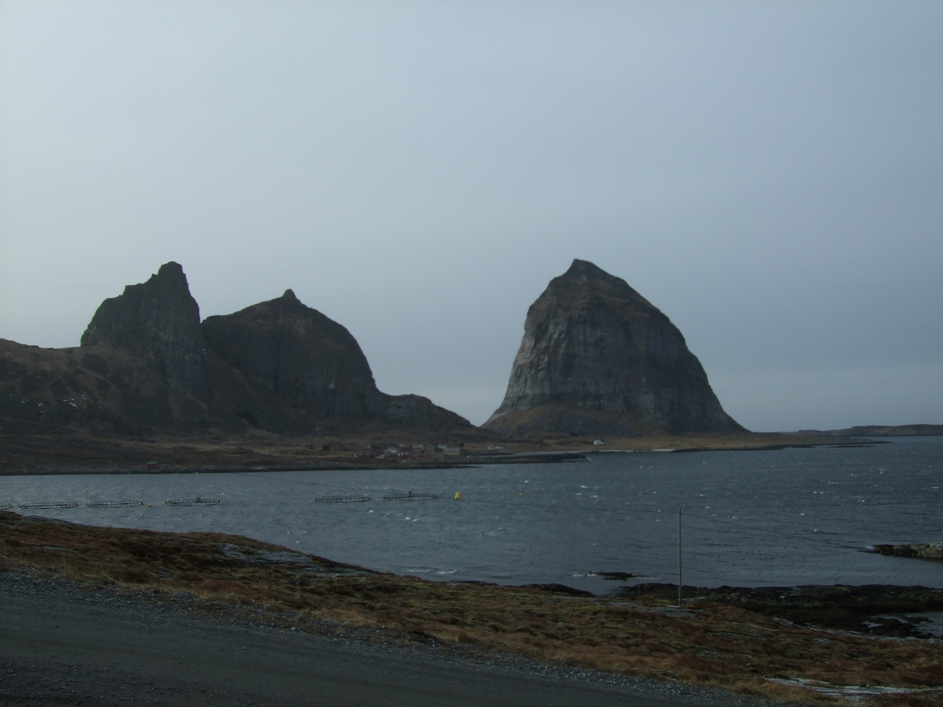 Mountain Trænstaven on Sanna island seen from Husøy island